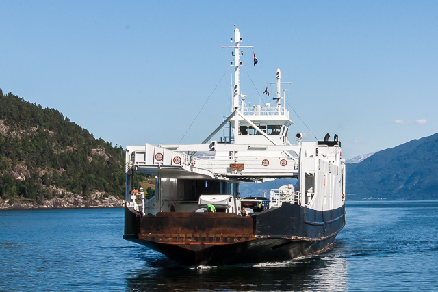 MF Selje